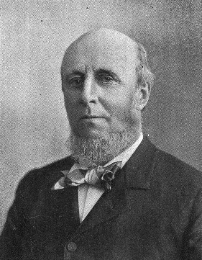 Photograph of James Burrill Angell